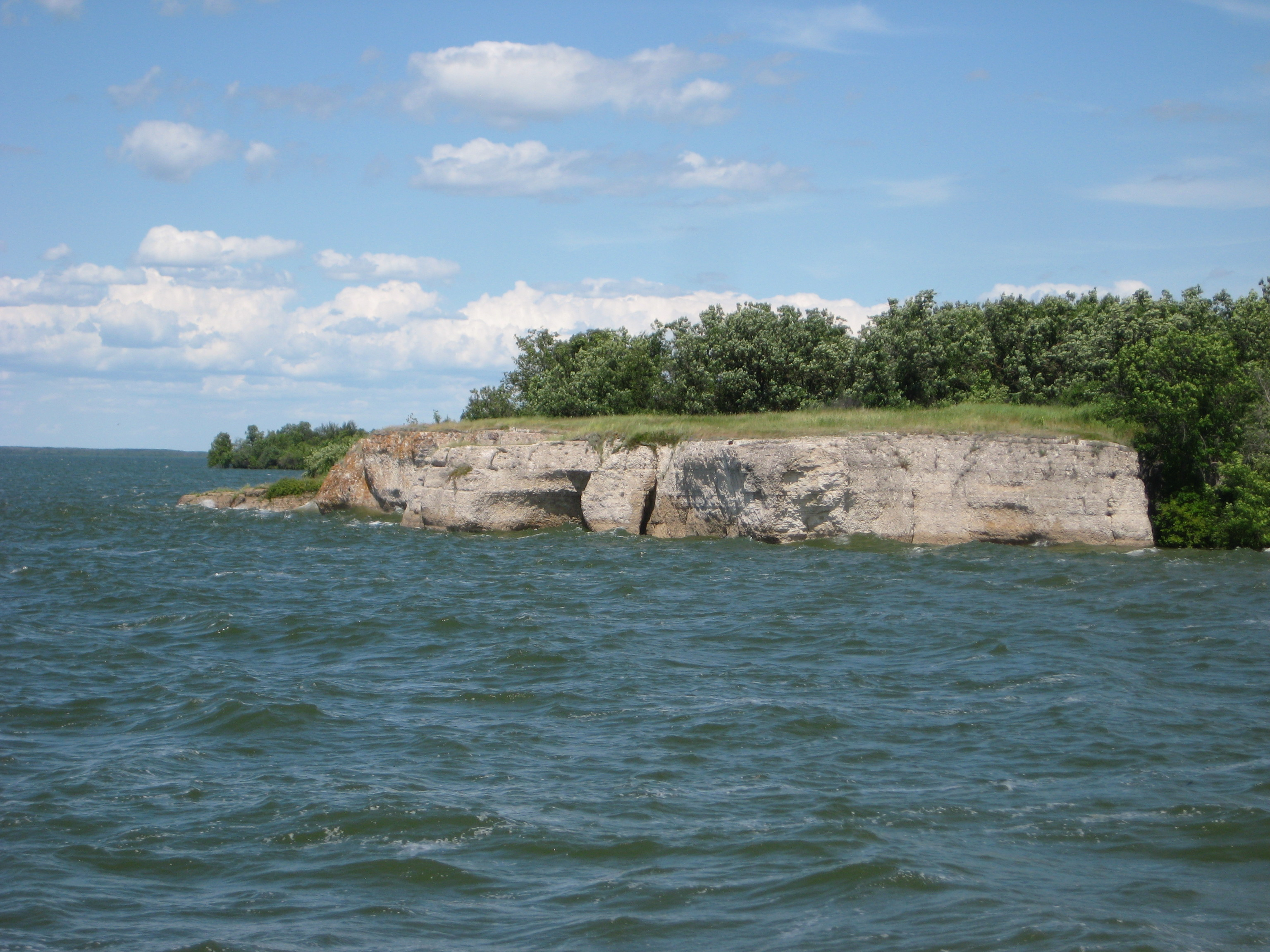 Limestone cliffs near Steep Rock